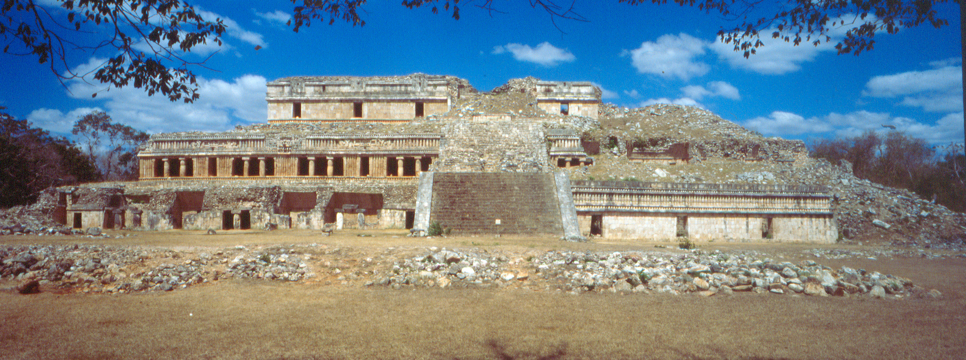 Syil, Yucatan, Mexico: Great Palace.